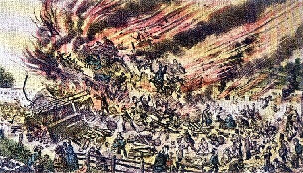 Collision of two trains near Ambler, Pennsylvania, USA.